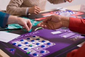 Hands of people playing Friday Night at the ER around the game board.